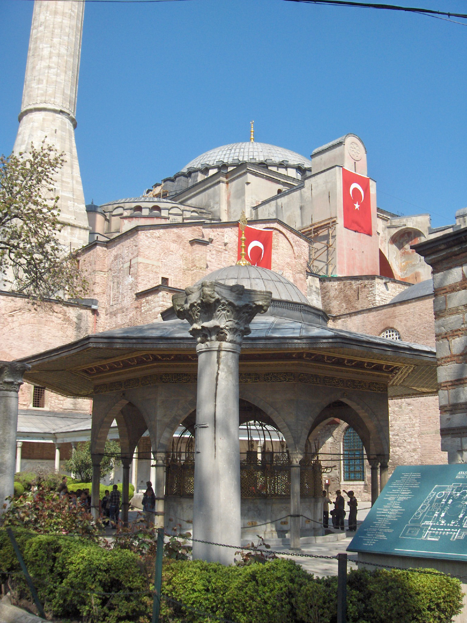 Hagia Sophia,Sadirvan, fountain for ritual ablutions; Istanbul, Turkey